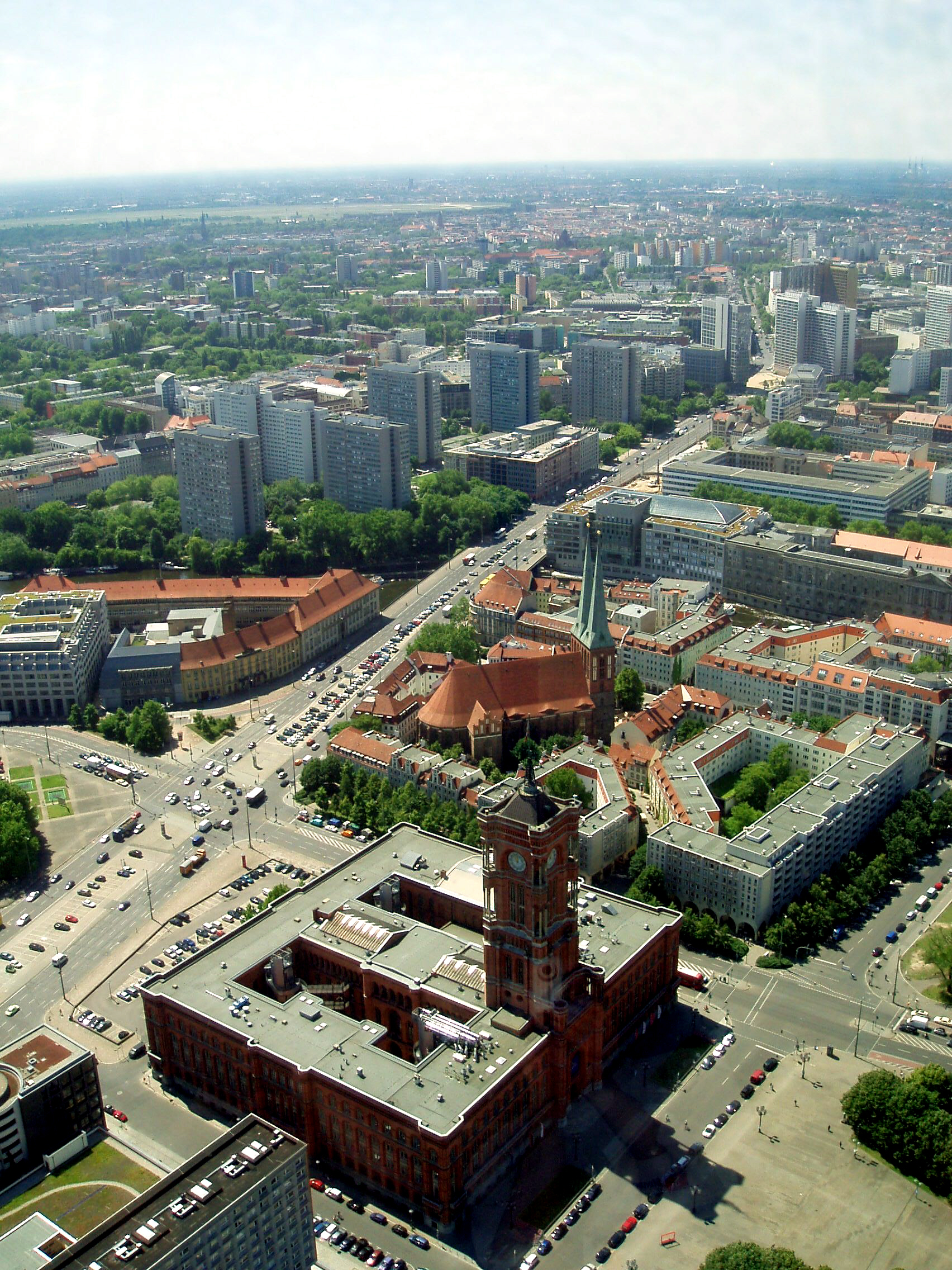 View over the Rotes Rathaus (foreground) from the viewing sphere of the Berlin TV tower.